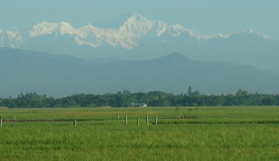 View of the Nepalese Himalayas from Panchagarh District, Bangladesh